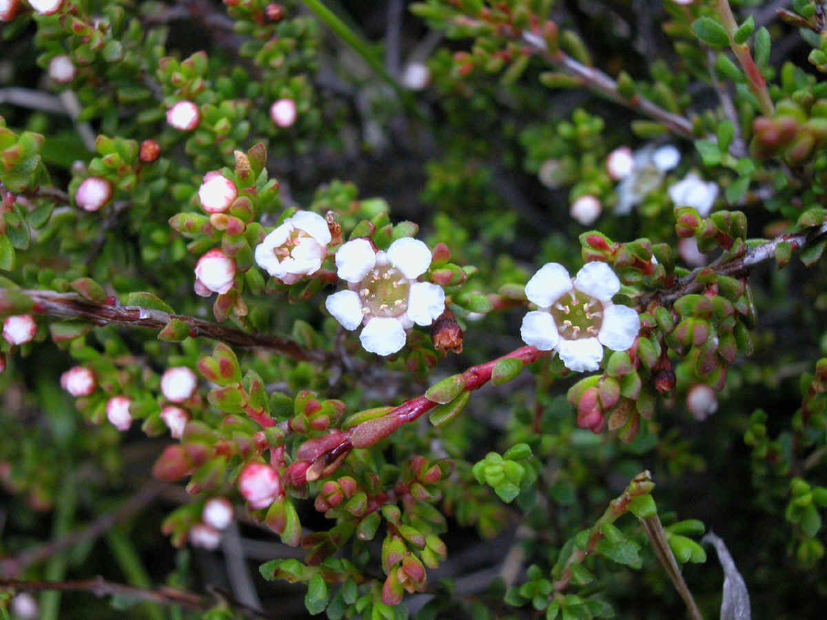 Picture baeckea